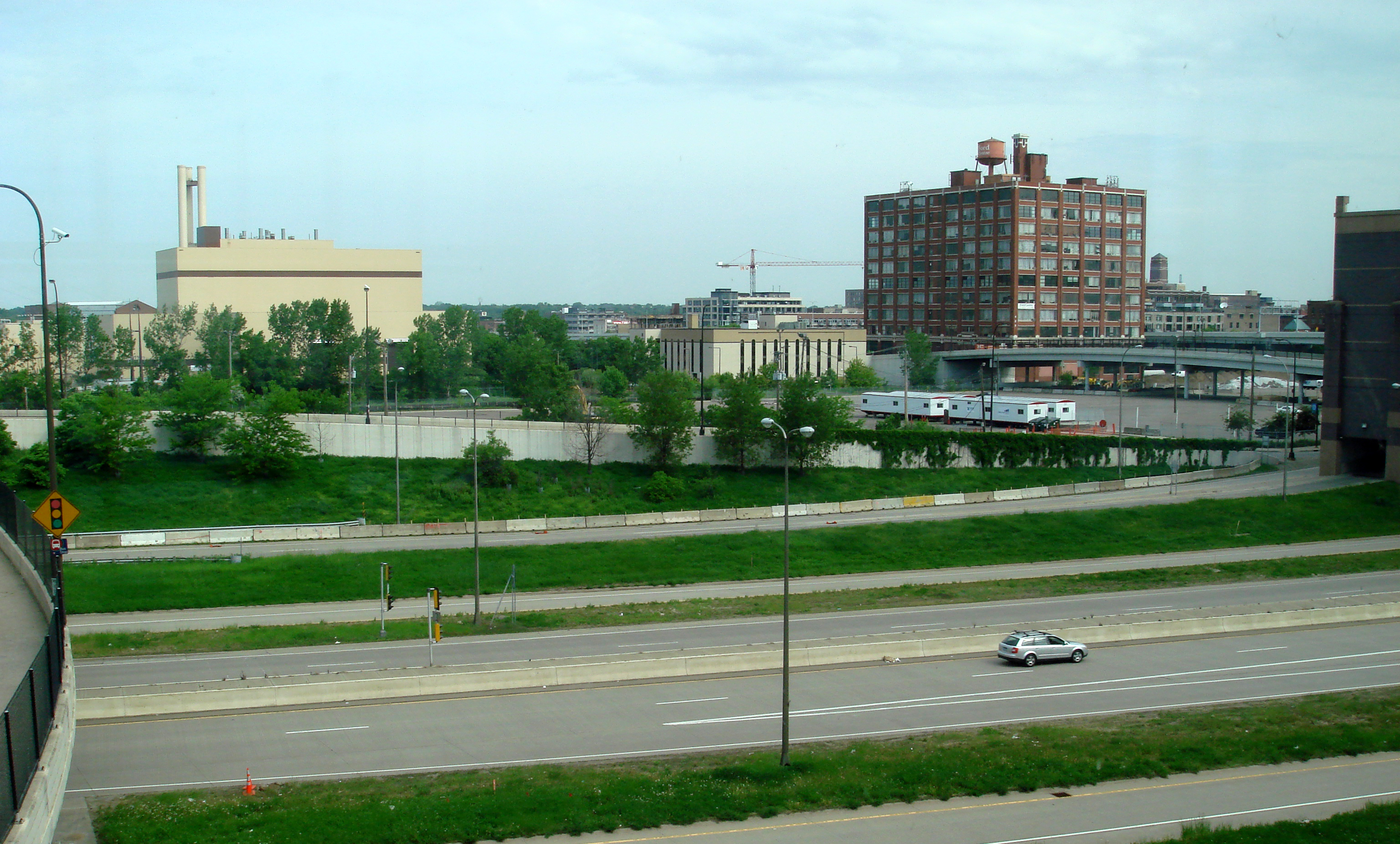 The site of the under-construction Twins Ballpark, two-days before construction commenced on May 21, 2007. The location is bordered by 7th St. N (overpass on left), the Hennepin Energy Recovery Center (HERC) (building with smokestacks at rear left as well as the similarly colored small building to the right of it), 5th St. N (overpass on the right side), and the 394 exits (foreground).